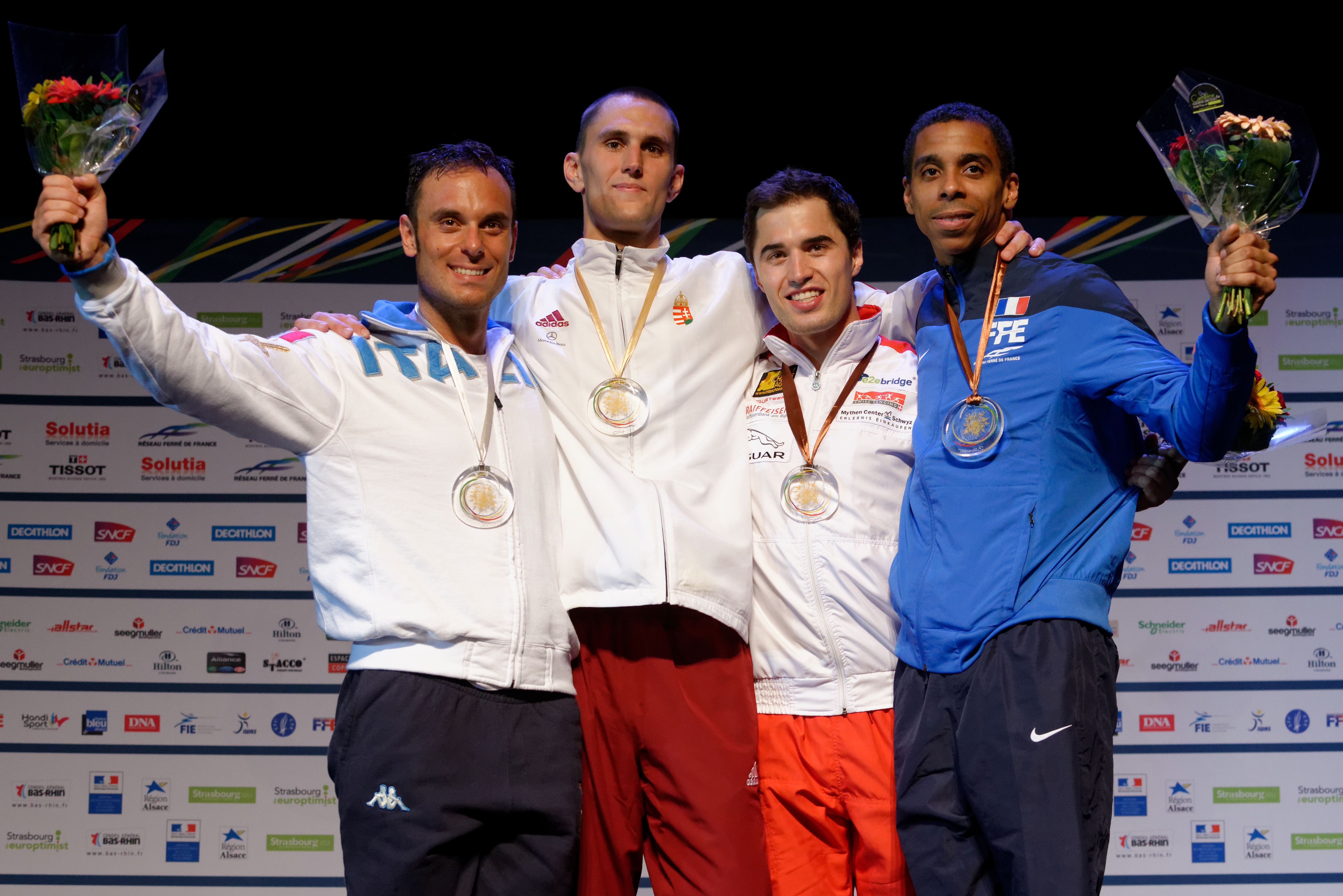 From left to right, Italy's Paolo Pizzo, Hungary's András Rédli, Switzerland's Max Heinze, and France's Jean-Michel Lucenay stand on the podium for men's épée in the European Fencing Championships at Rhénus Sport in Strasbourg on 7 June 2014.